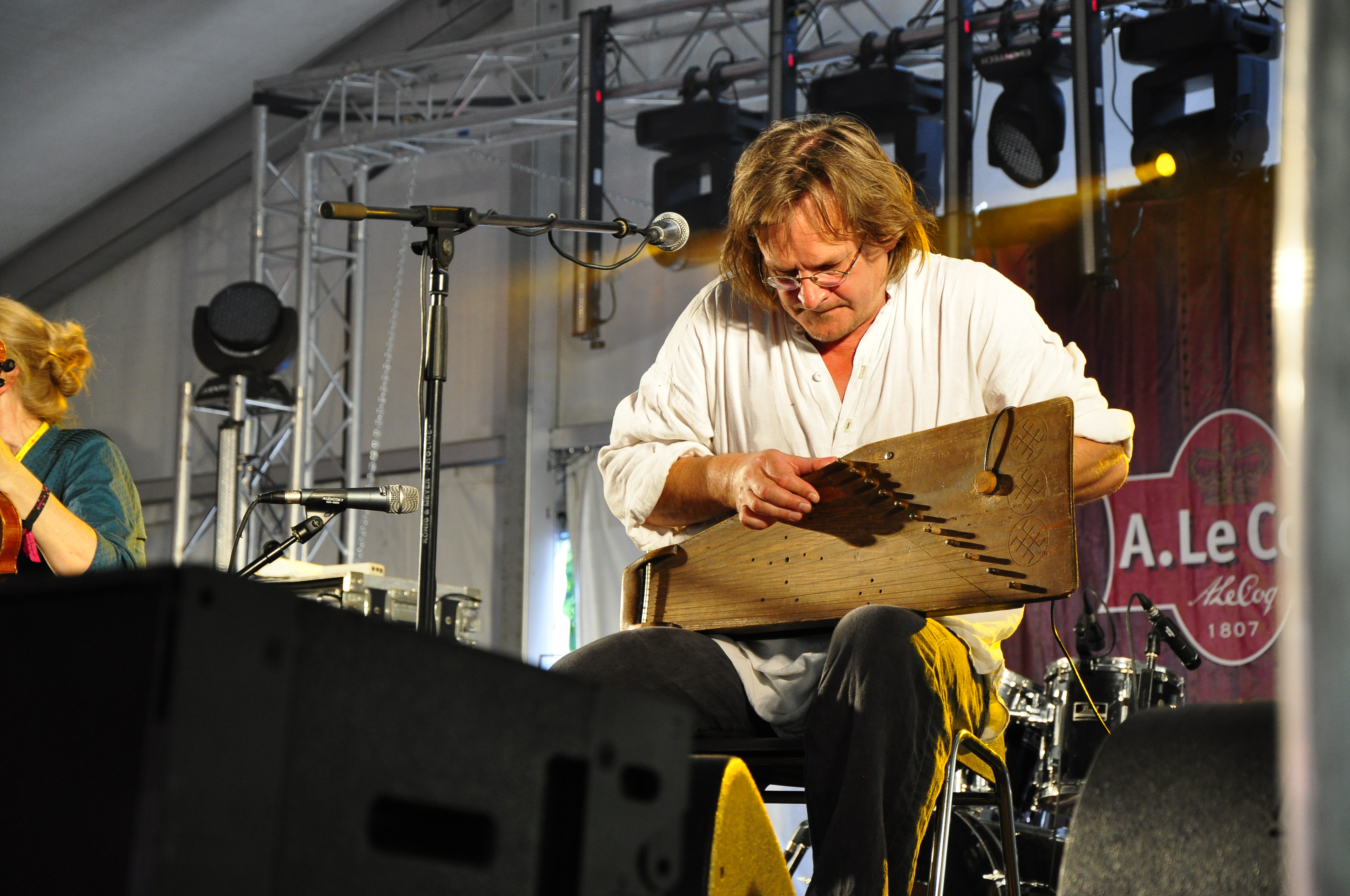 Māris Muktupāvels of the Latvian band Iļģi tuning a kokle.